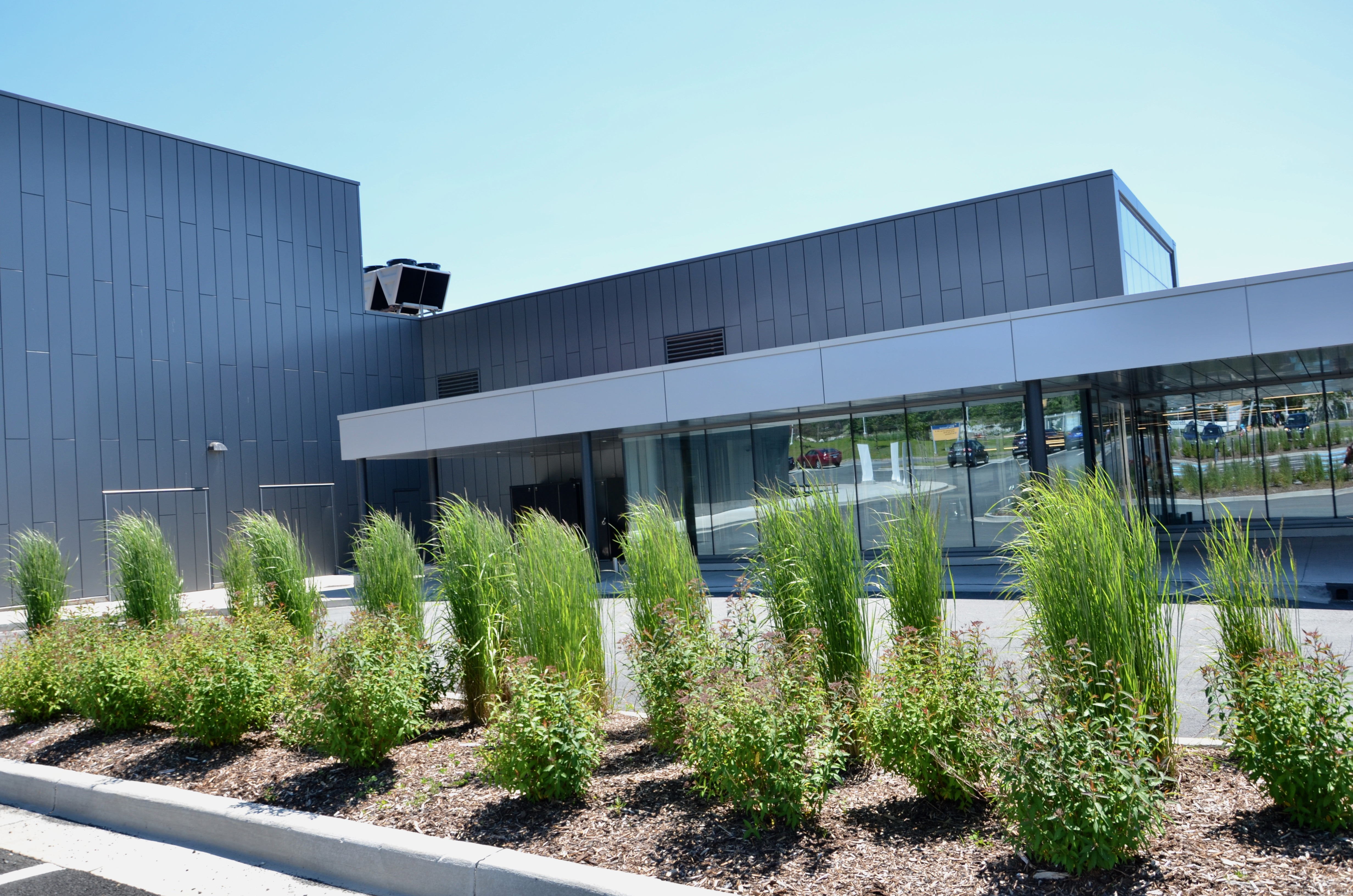 Entrance to the new renovated Zatzman Sportsplex (formerly Dartmouth Sportsplex).